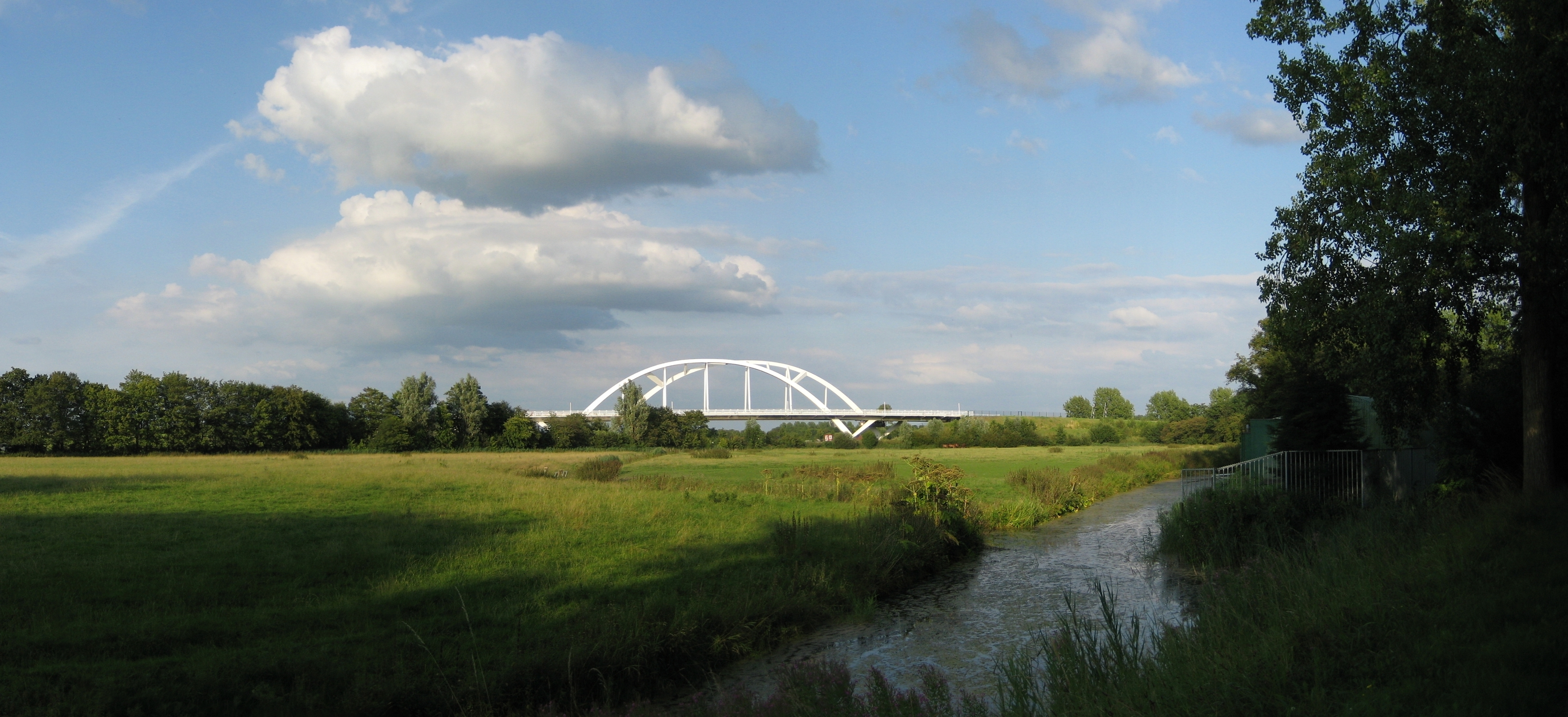 The Walfridus bridge (2003), a railway and bicycle bridge over the Van Starkenborghkanaal in the Dutch city of Groningen.